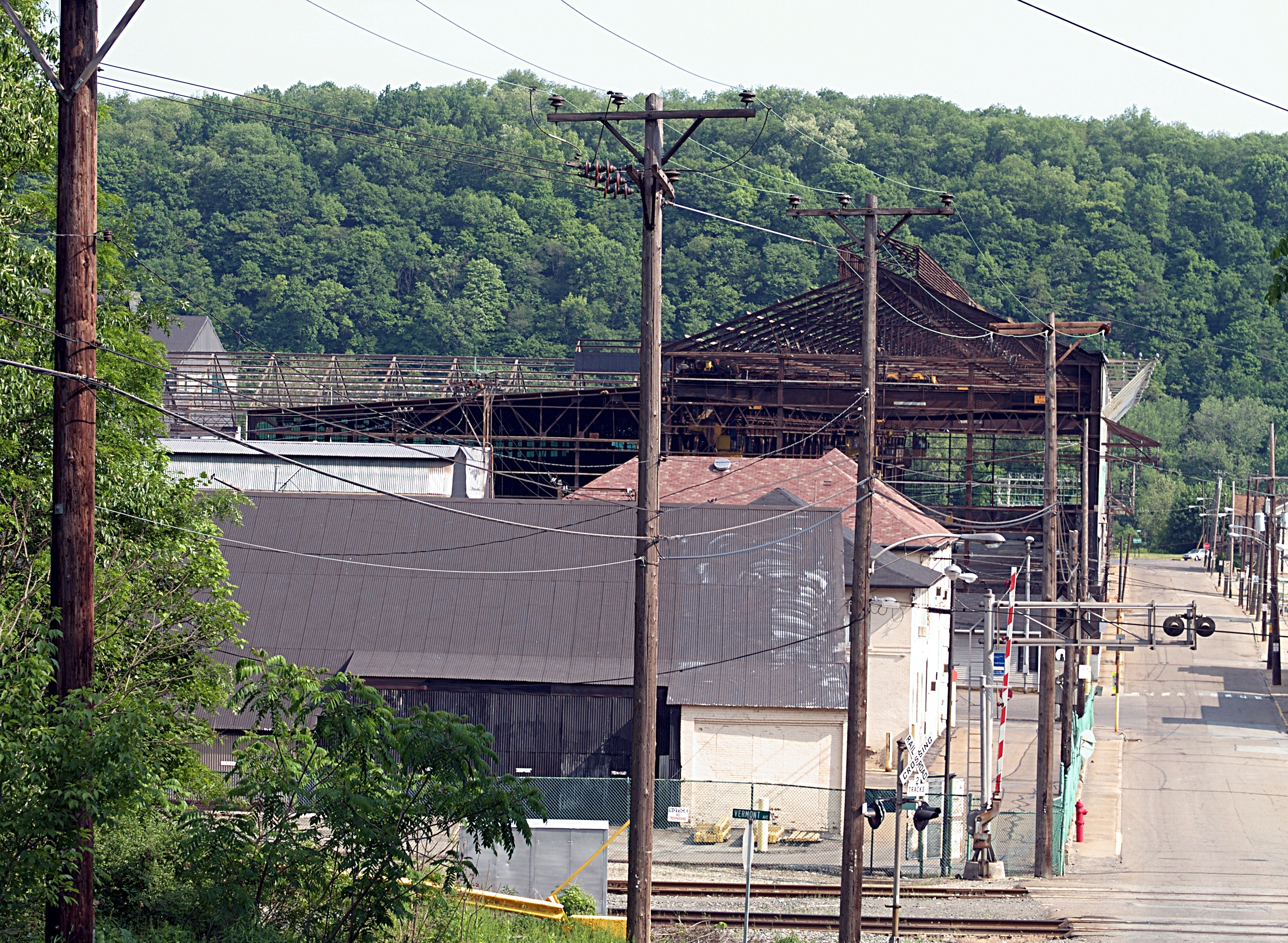 View of Allegheny Ludlum Brackenridge Works from Mile Lock Lane at Vermont Avenue (Harrison Township and Brackenridge, Pennsylvania)